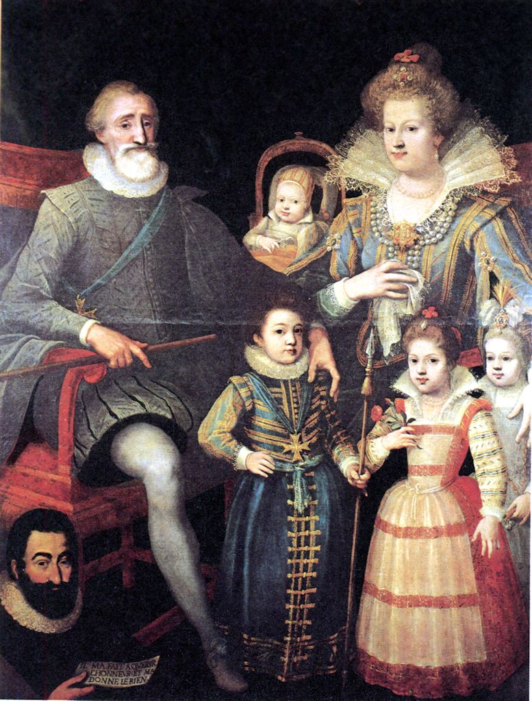 Henri IV, the royal family and Fouquet of Varenne